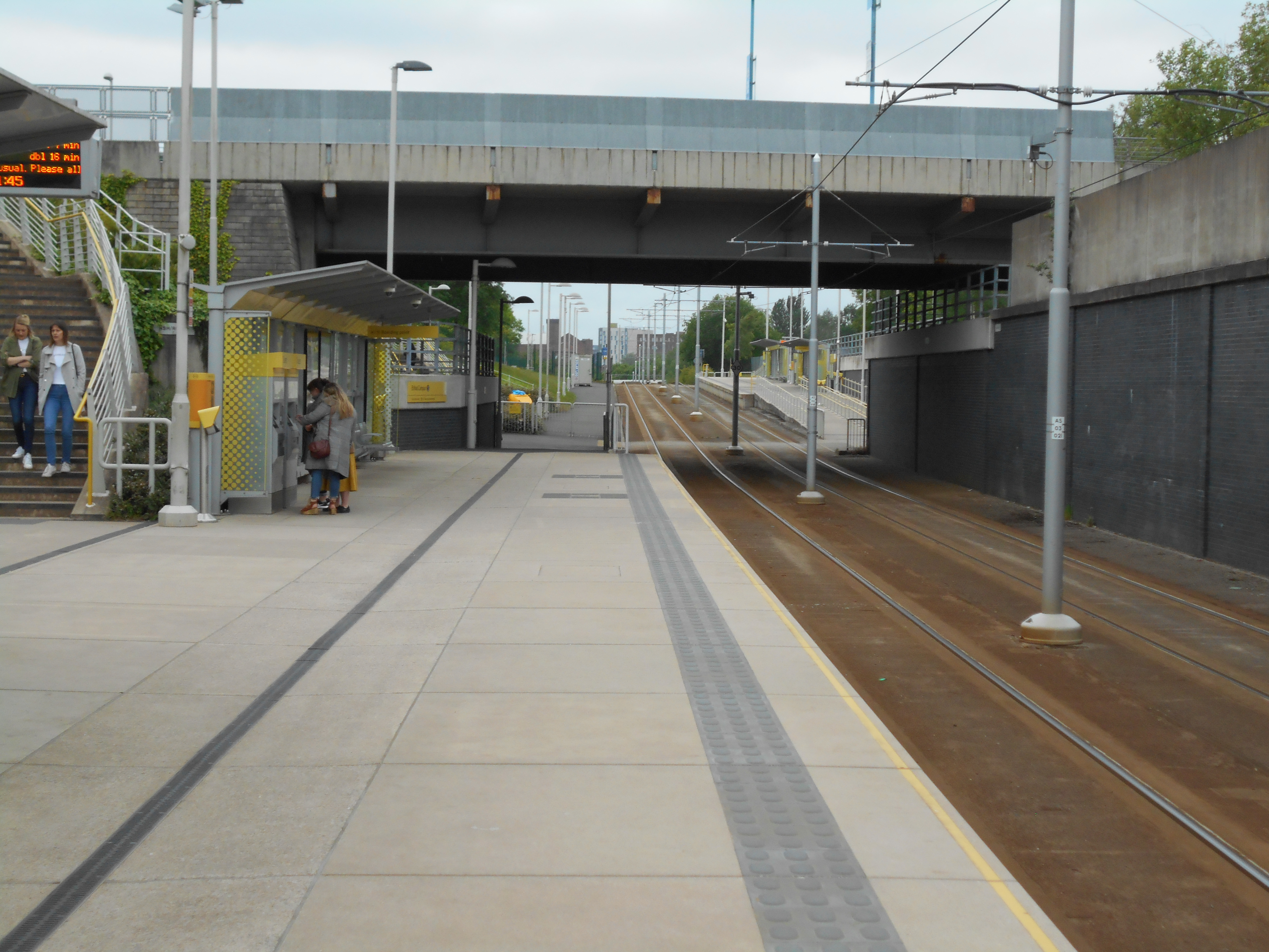 Etihad Campus tram stop, looking west.